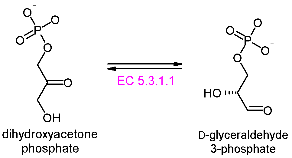 Glycolysis, DHAP-GADP